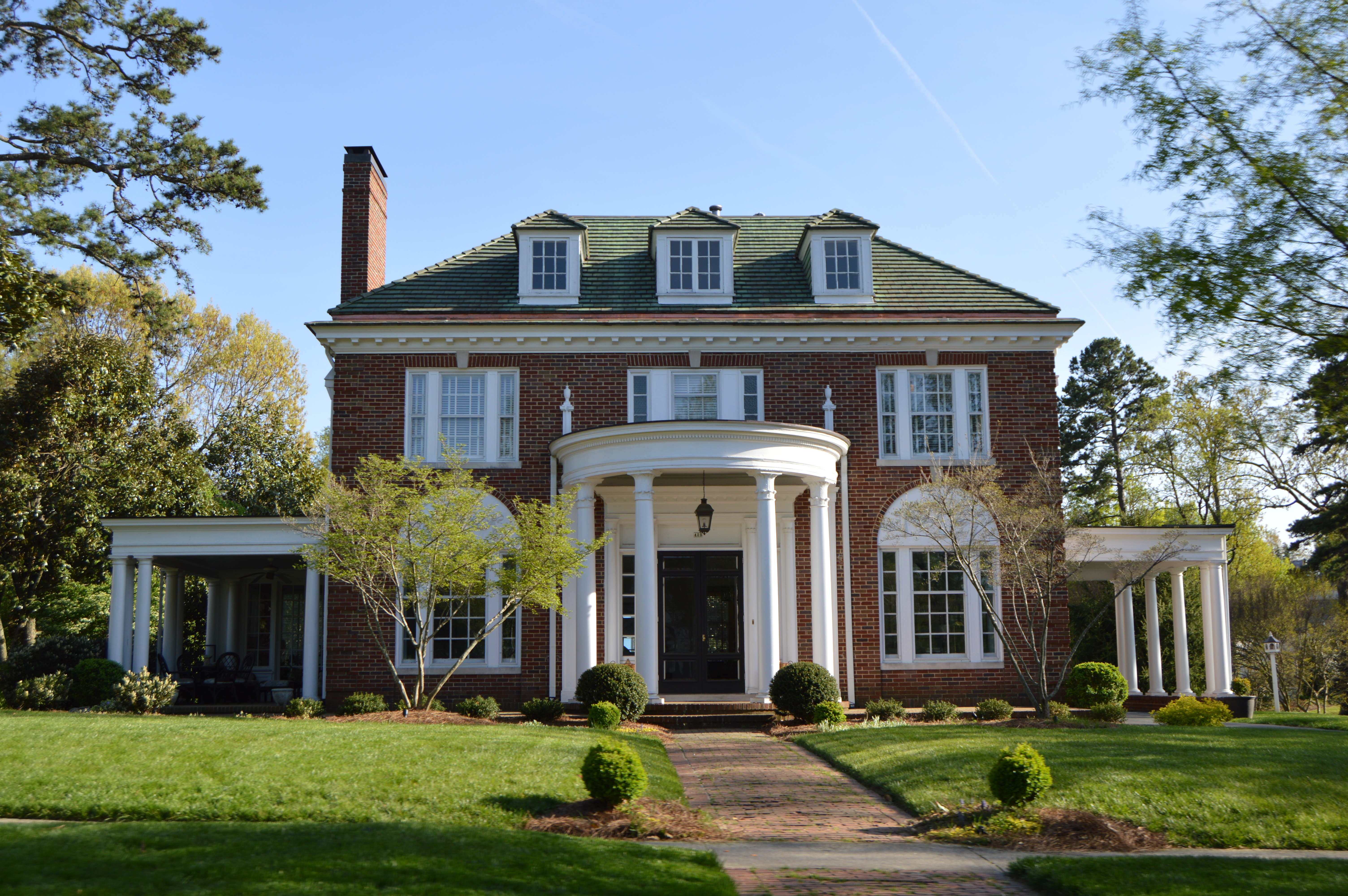 Front of the Lucy and J. Vassie Wilson House, located at 425 Hillcrest Drive in High Point, North Carolina, United States. Built in 1926, it is listed on the National Register of Historic Places.